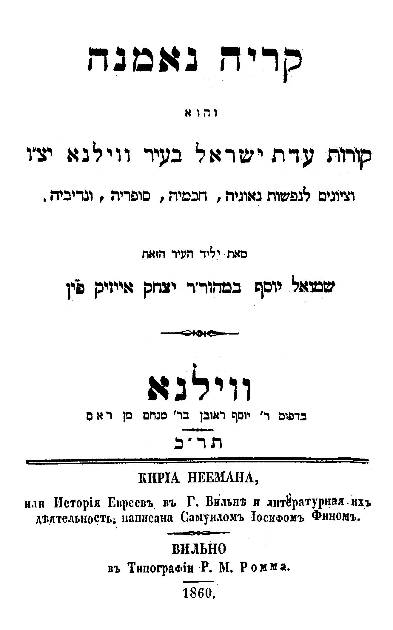 Front page of Samuel Joseph Fuenn's "Kirya Ne'emana", printed in Vilna 1860